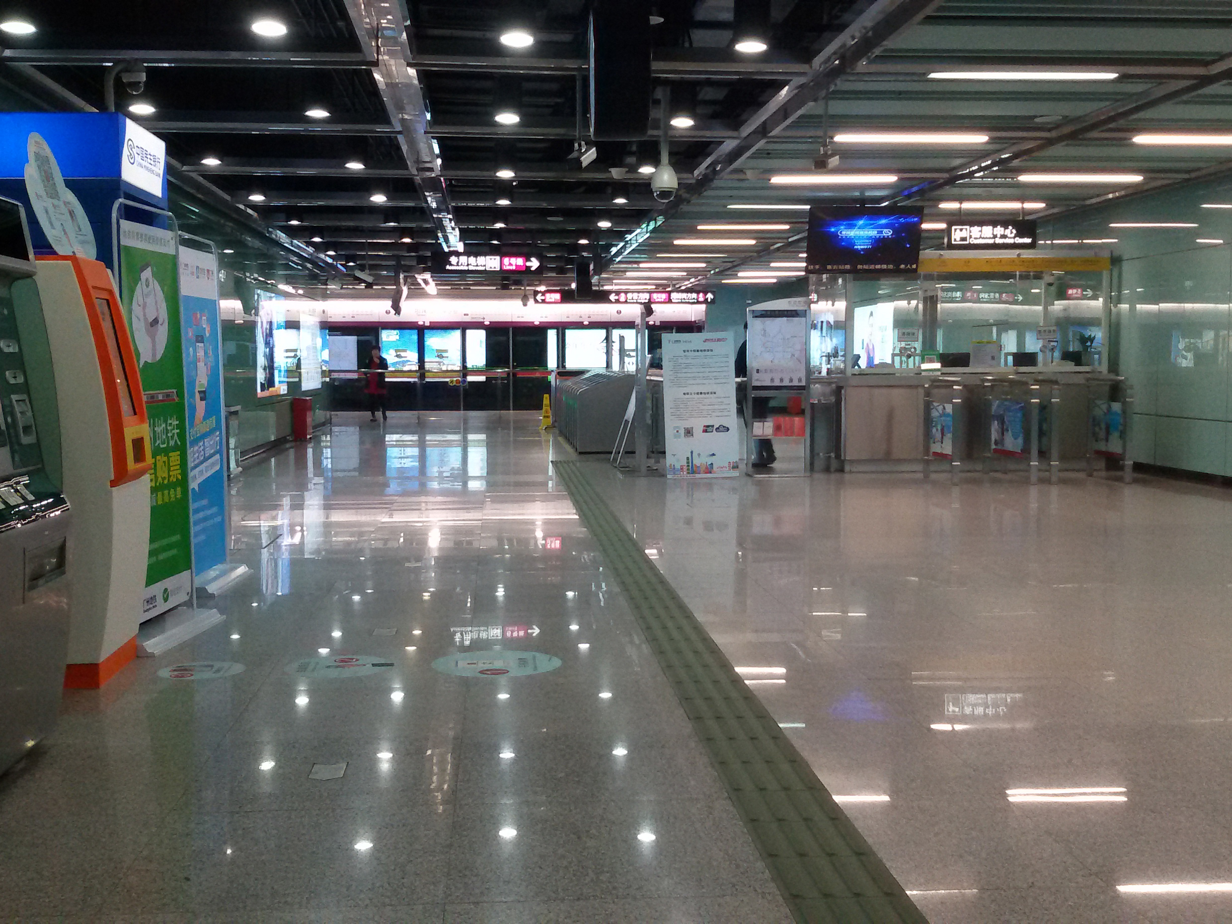 Platform for Tanwei Station for Line 6 in Guangzhou Metro 粵語: 廣州地鐵，坦尾站嘅6號綫月台。 中文（中国大陆）: 广州地铁，坦尾站嘅6号线站台。 中文（台灣）: 廣州地鐵，坦尾站嘅6號線站台。